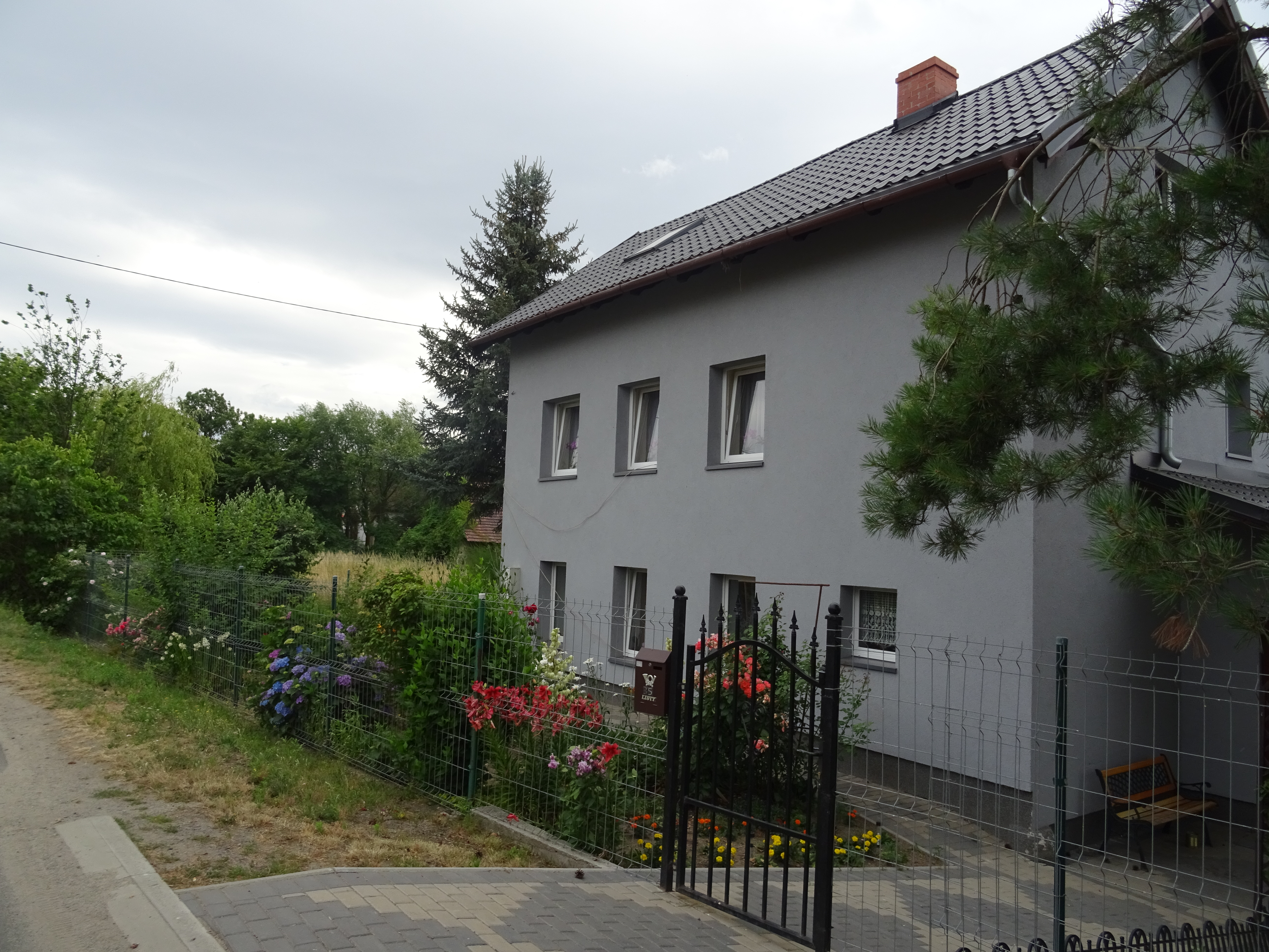 This photograph was created as a part of Wikiexpedition Lower Silesia, a project supported by Wikimedia Poland grant.